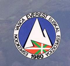 Basque Espedition Everest logo, 1980